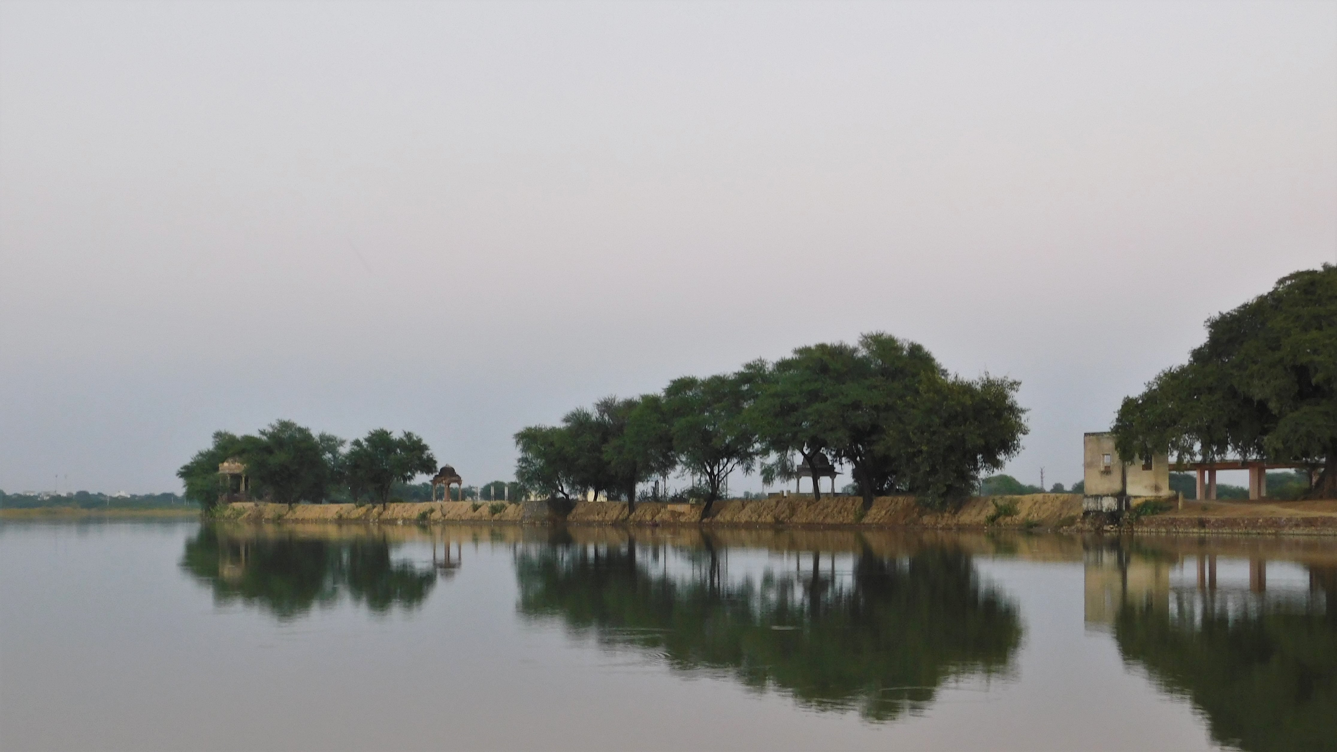 Brahma Pond Sunset View.